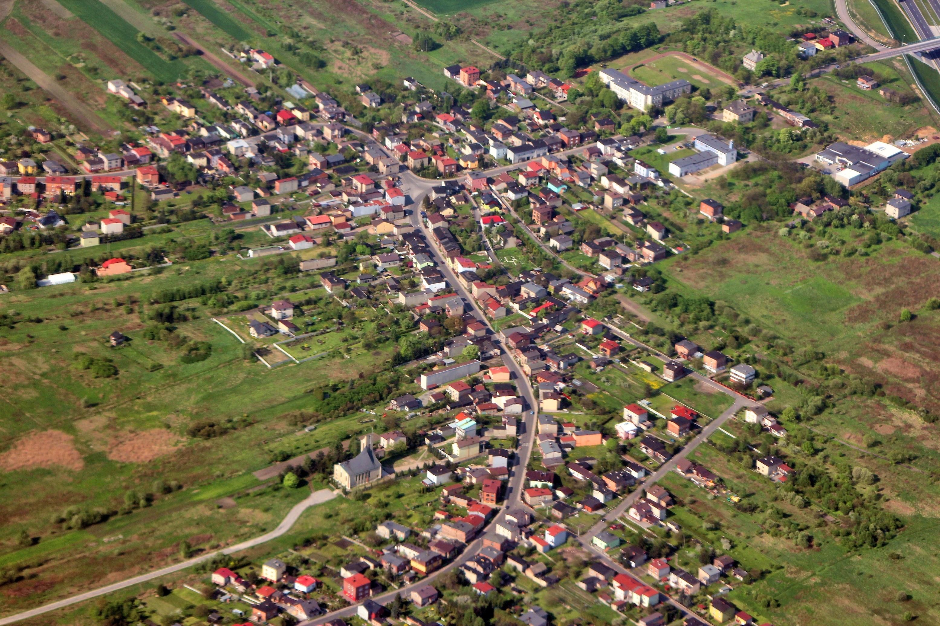 Dobieszowice village in powiat będziński, Poland.